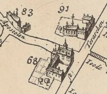 Detail of 1695 map by J. Laboureur & Josse van der Baren, Bruxella, nobilissima Brabantiæ civitas